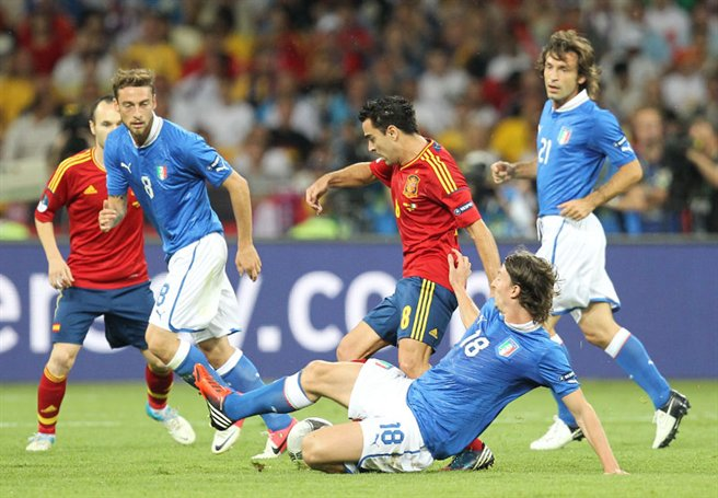 Claudio Marchisio, Xavi Hernández, Riccardo Montolivo and Andrea Pirlo at Euro 2012 final Spain-Italy